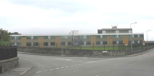 Holyhead High School a.k.a. Ysgol Uwchradd Caergybi High School - Britain's oldest comp. The school was formed in 1949 with the amalgamation of Holyhead Grammar and St Cybi Secondary school. Ysgol Thomas Jones, Amlwch claims the title of the first purpose built comprehensive. Ysgol Gyfun Llangefni is claimed by some to be Britain's first comprehensive.